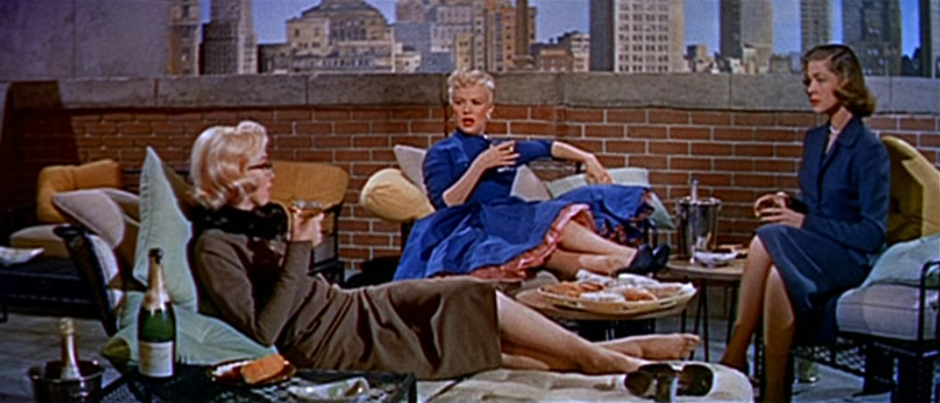 Cropped screenshot of Marilyn Monroe, Betty Grable and Lauren Bacall in the trailer for the film How to Marry a Millionaire